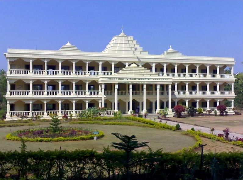 An epitome of good educational center